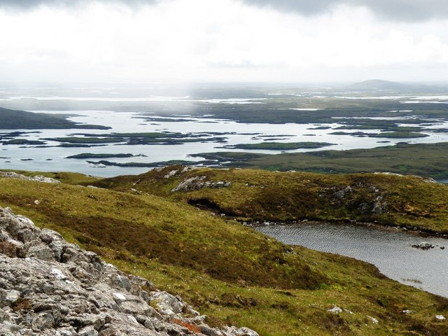 View from Eaval Looking towards Grimsay in the distance, with Ruabahl in the top right corner on Benbecula